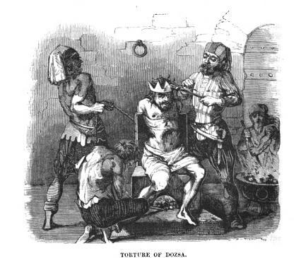 Torture of Dozsa